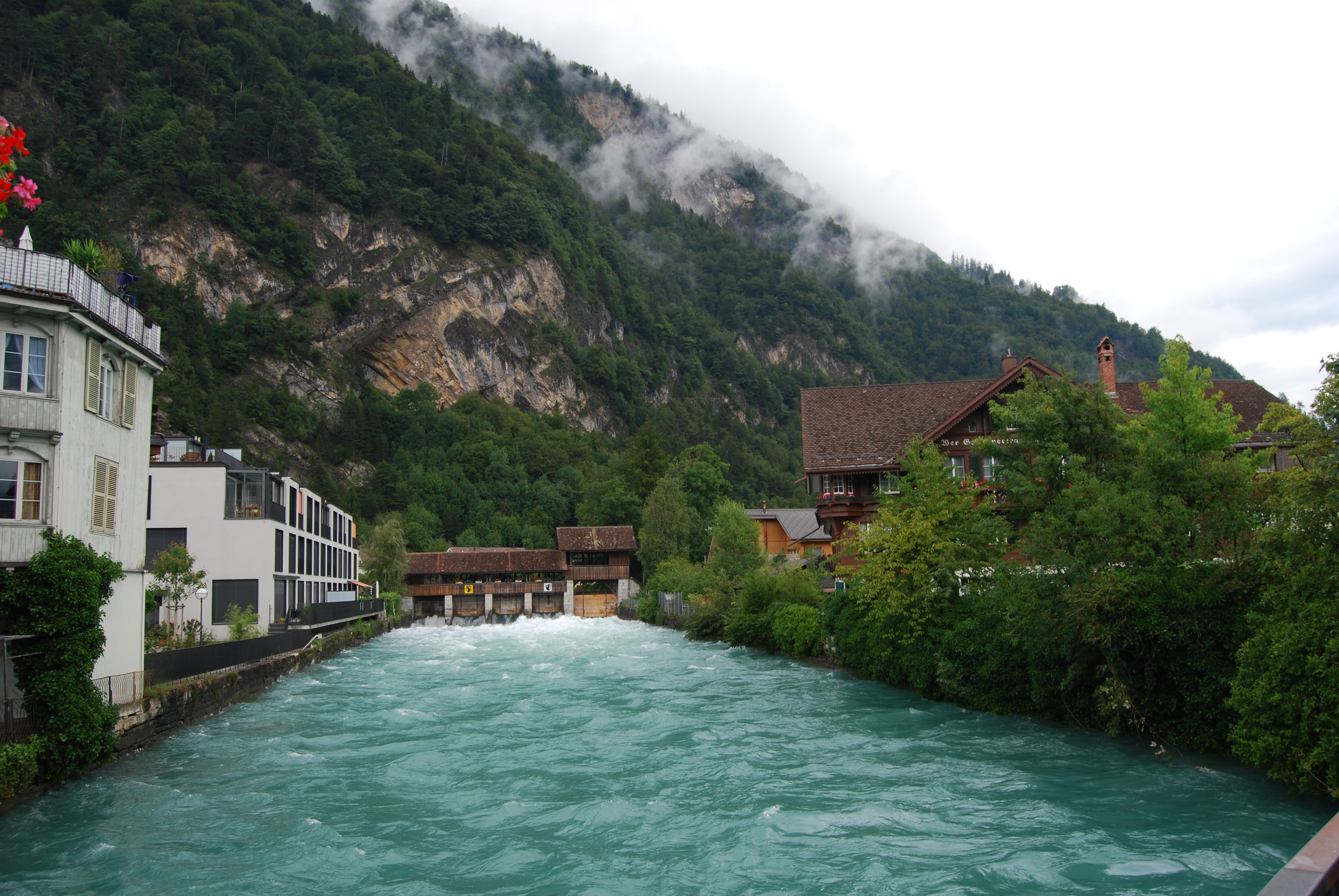 Interlaken, canton of Bern, SwitzerlandEsperanto: Interlaken, Kantono Berno, Svislando